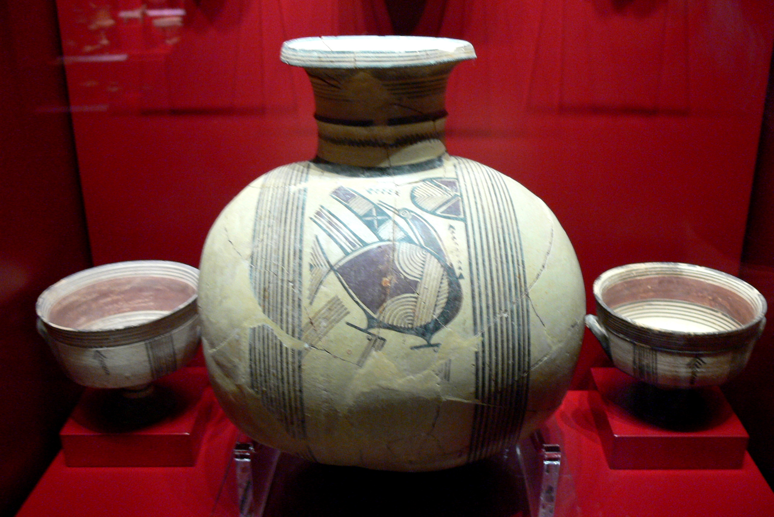 Nicosia ( Cyprus ). Leventio Municipal Museum: Barrel shaped oinochoe depicting a bird ( Archaic period, 750-600 BC )